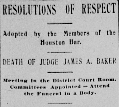 Notice of the death of Judge James A. Baker (1821-1897) in the Houston Daily Post. Members of the Houston Bar make plans to pay respect as a body.